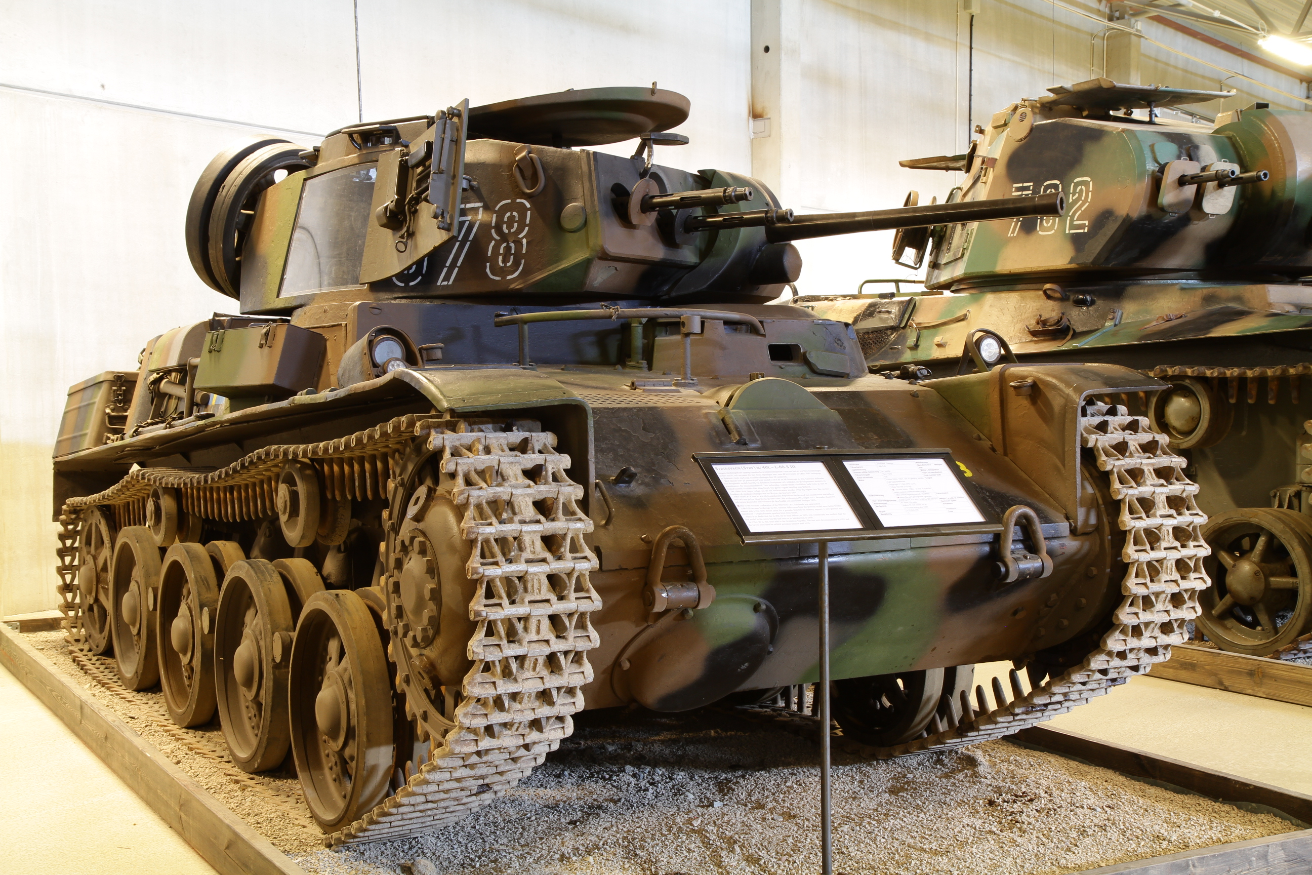 Swedish Stridsvagn m/40K or Tank m/40k armed with a 37mm bofors gun and dual coaxial 8mm machine guns. Part of the display at the military vehicle museum Arsenalen outside Strängnäs in Sweden.